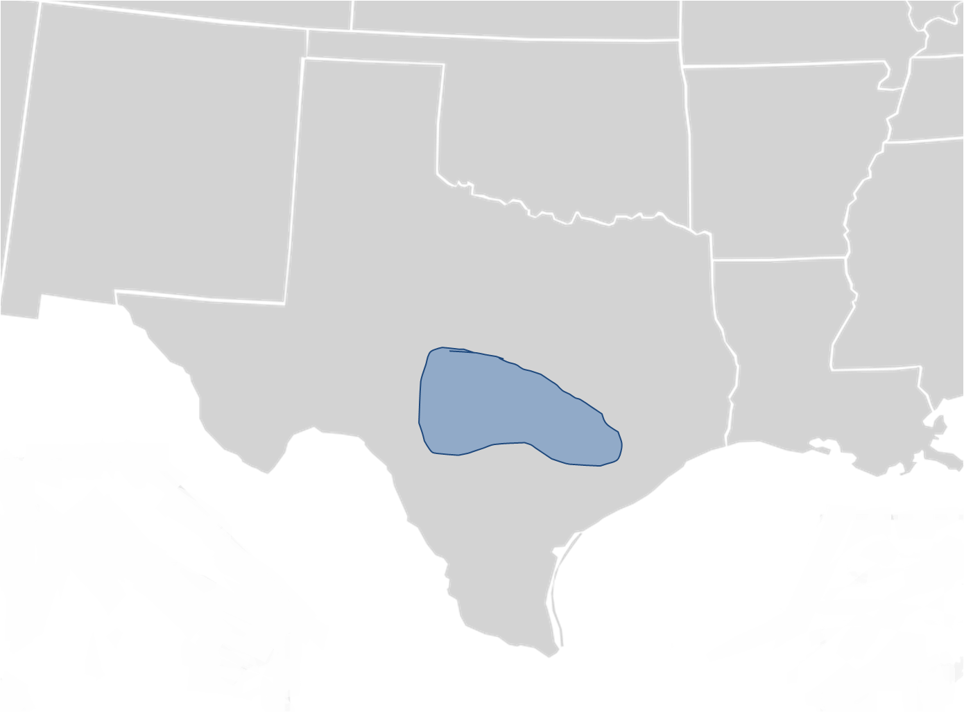 Range map of the Texas Map Turtle (Graptemys versa), based on C.H. Ernst and J.E. Lovich. (2009) "Turtles of the United States and Canada. 2nd Ed." Baltimore: Johns Hopkins University Press, pg 341